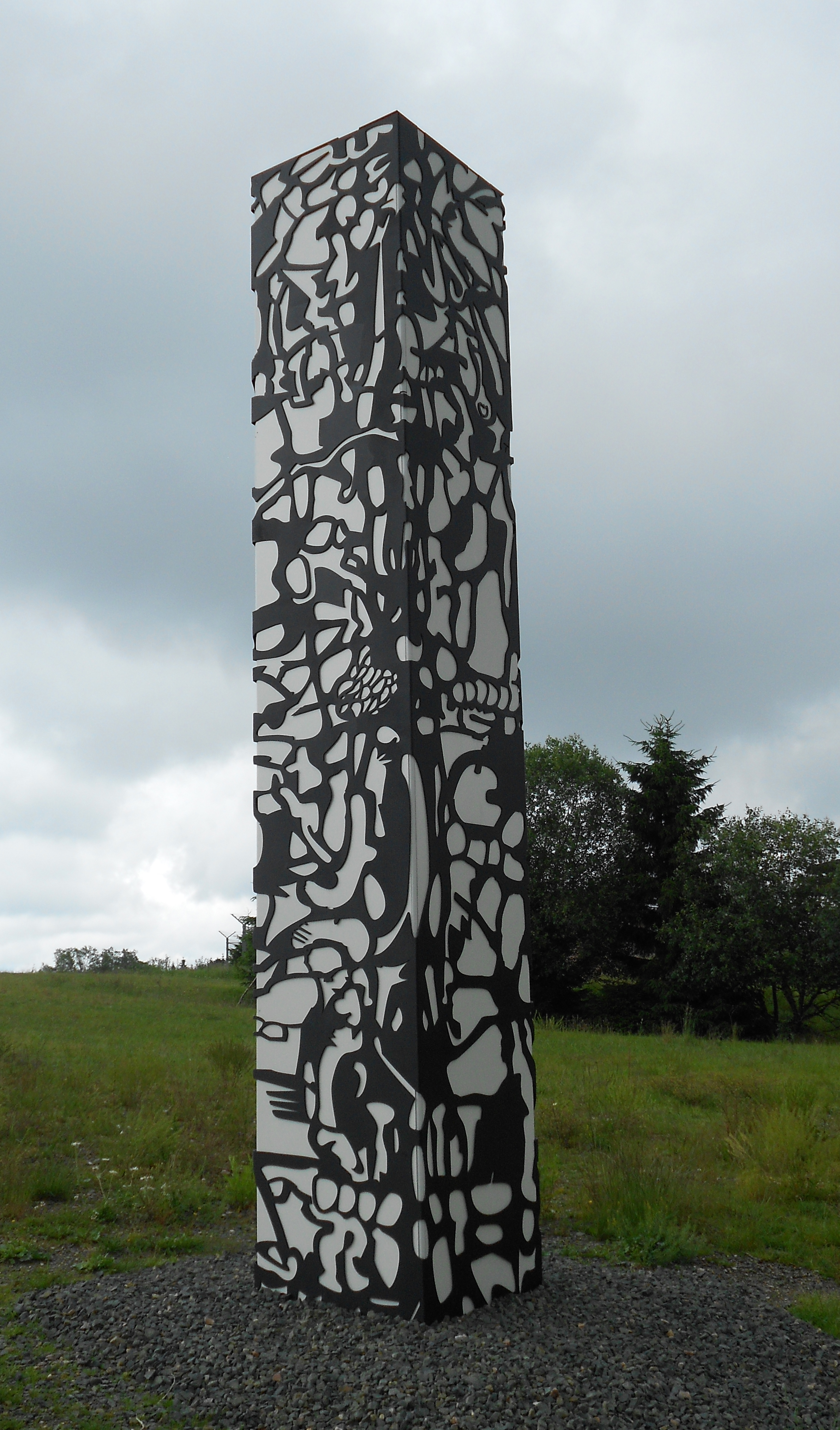 Bodo Korsig's sculpture State of Mind on the Erbeskopf, the highest point of the German state of Rhineland-Palatinate in summer 2012.